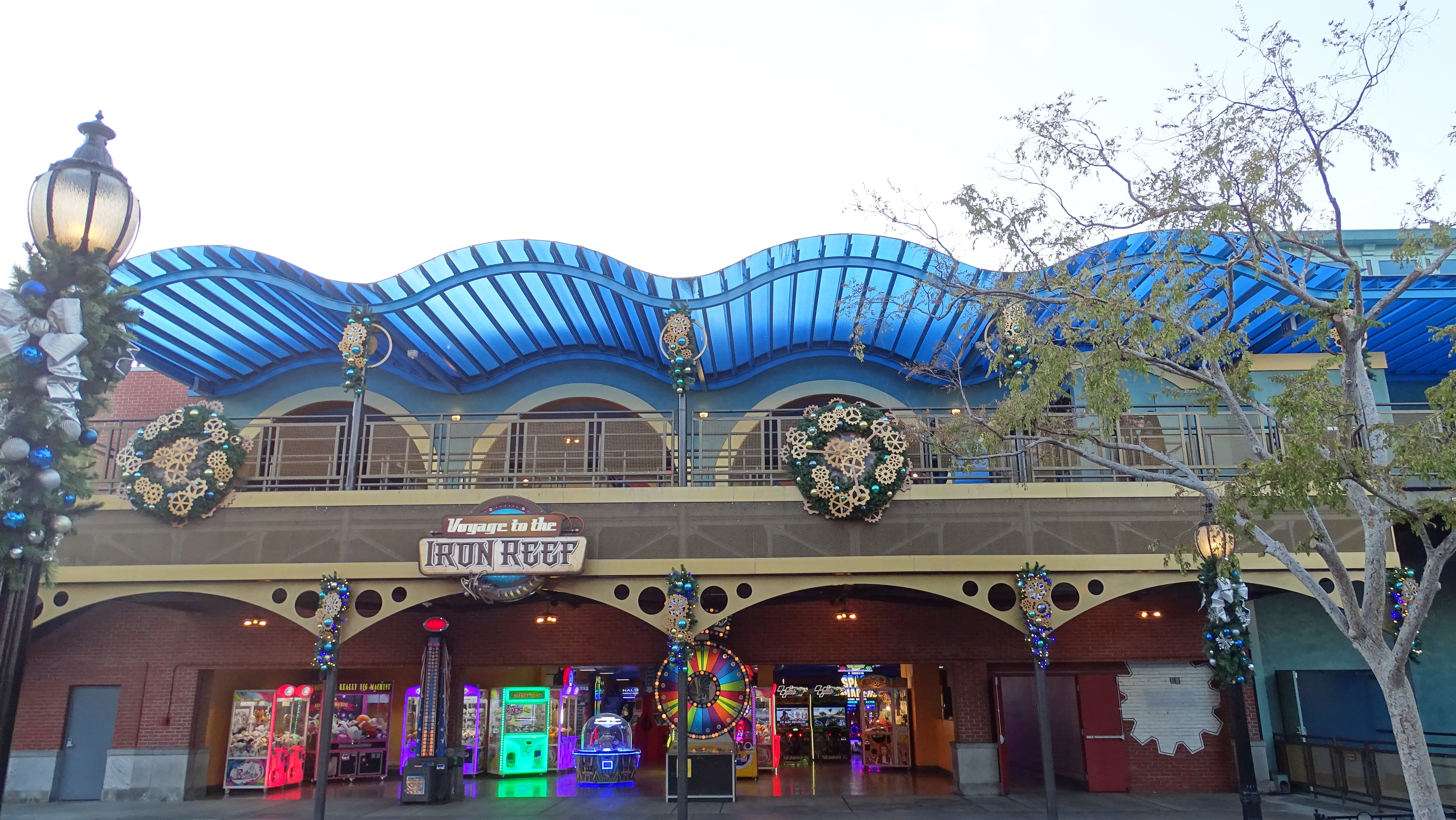 Voyage to the Iron Reef entrance